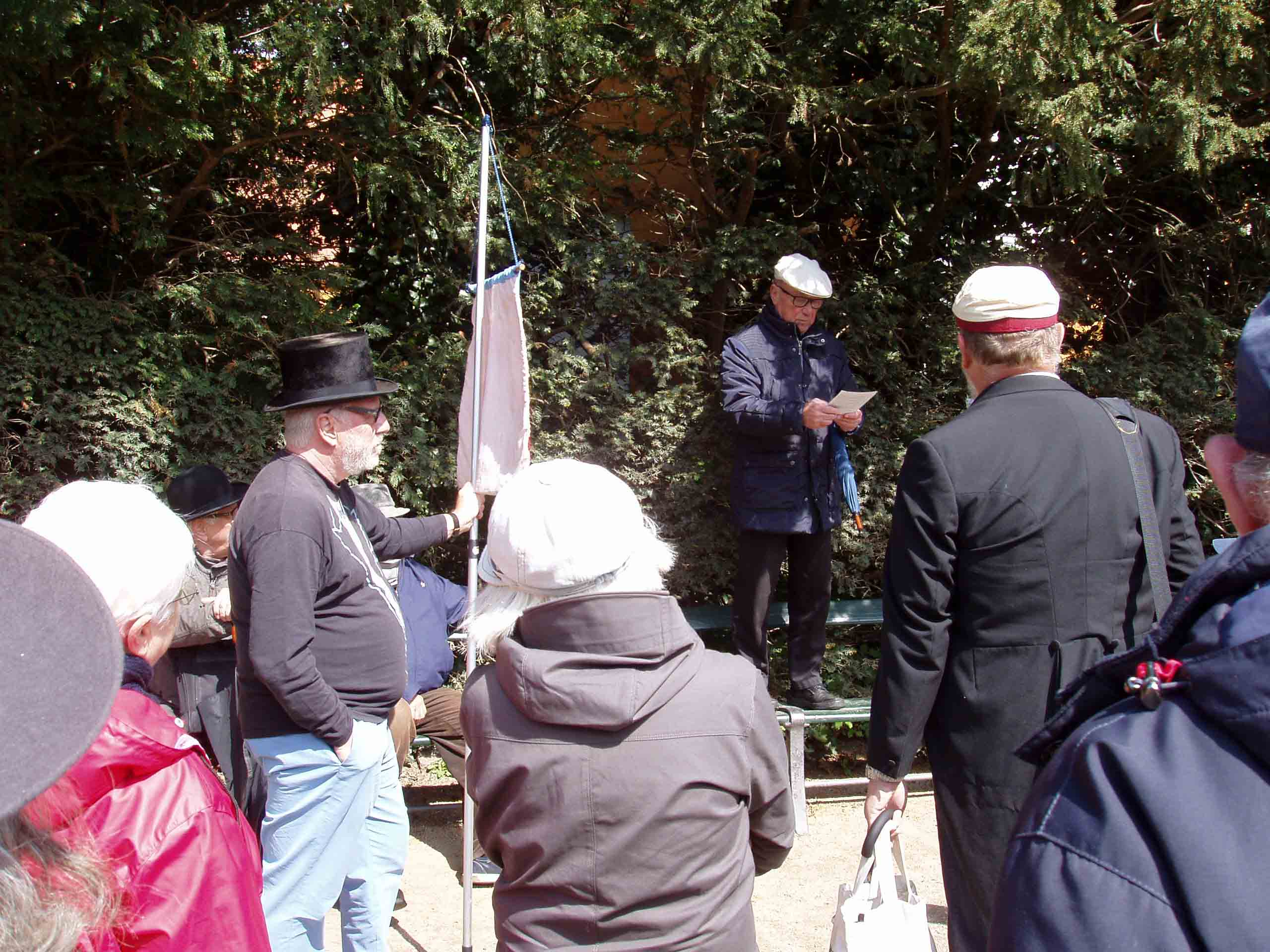 Bjørn Tidmand læser Storm P's monolog "Sangforeningen Morgenrøden" i Frederiksberg Have